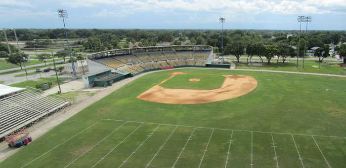 A photo taken July 16, 2011 of Tinker Field in Orlando, Florida.